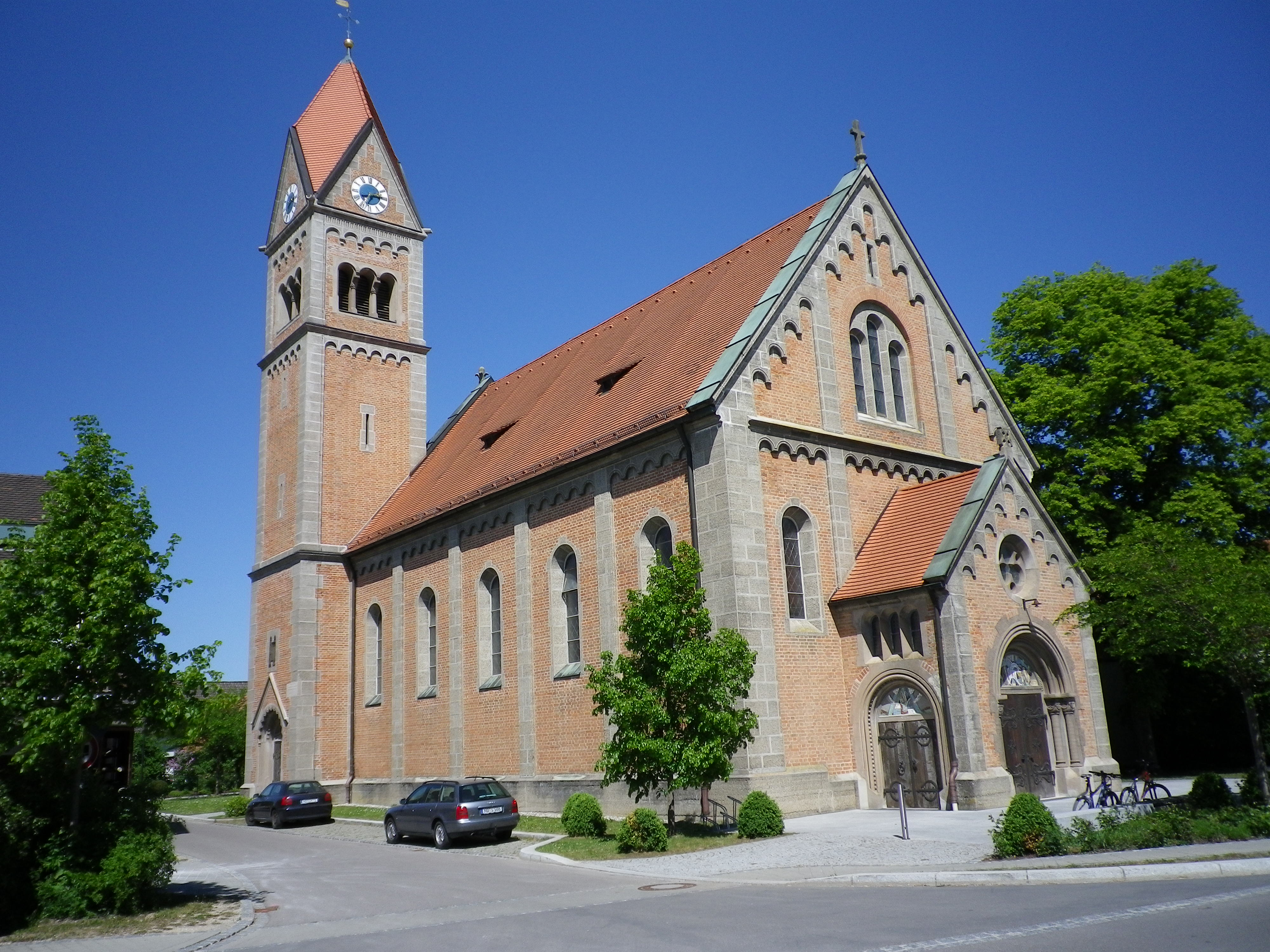 This is a photograph of an architectural monument.